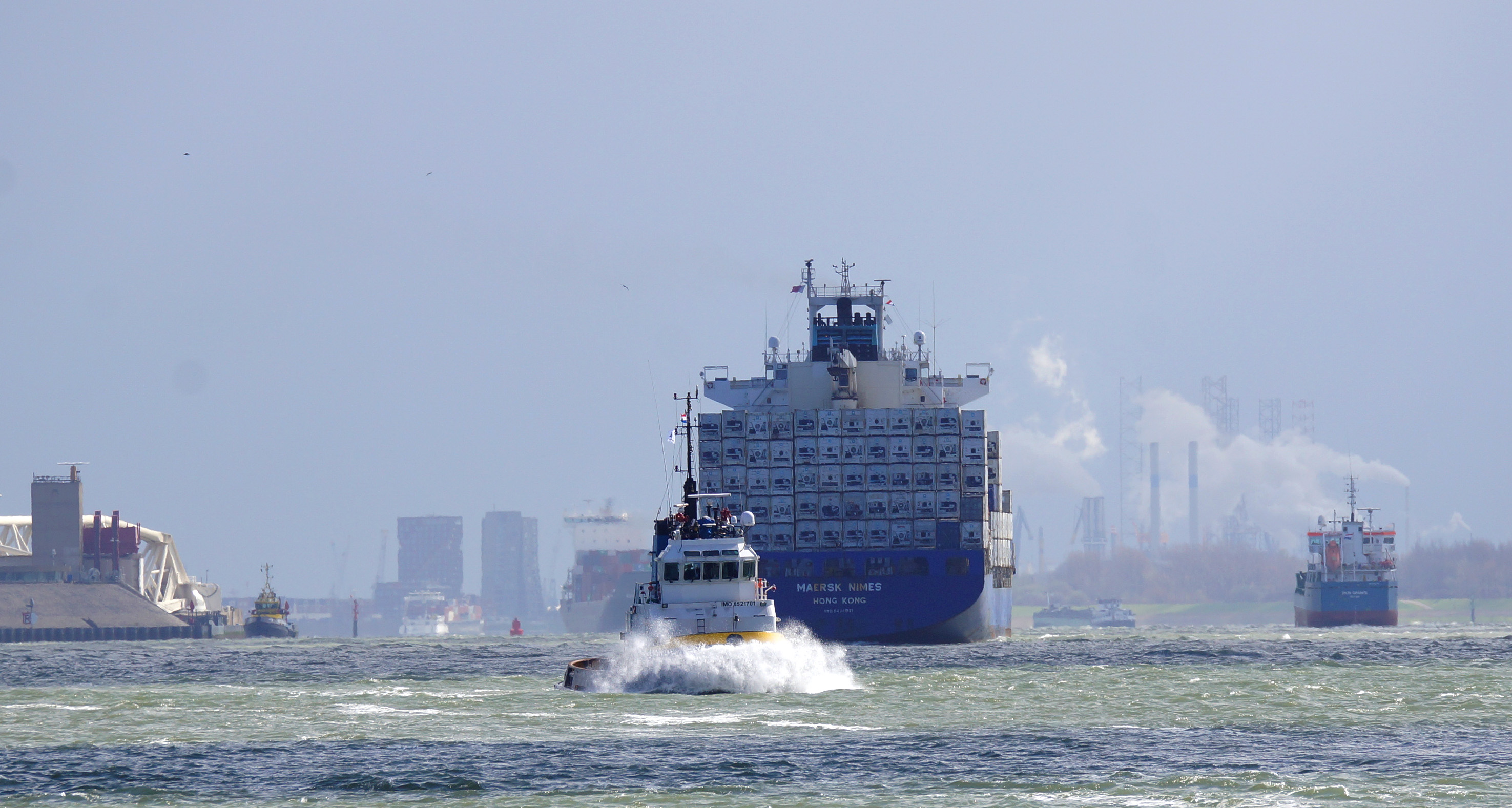 Cargo Ships at Sekondi-Takoradi Harbour (Takoradi Harbour)